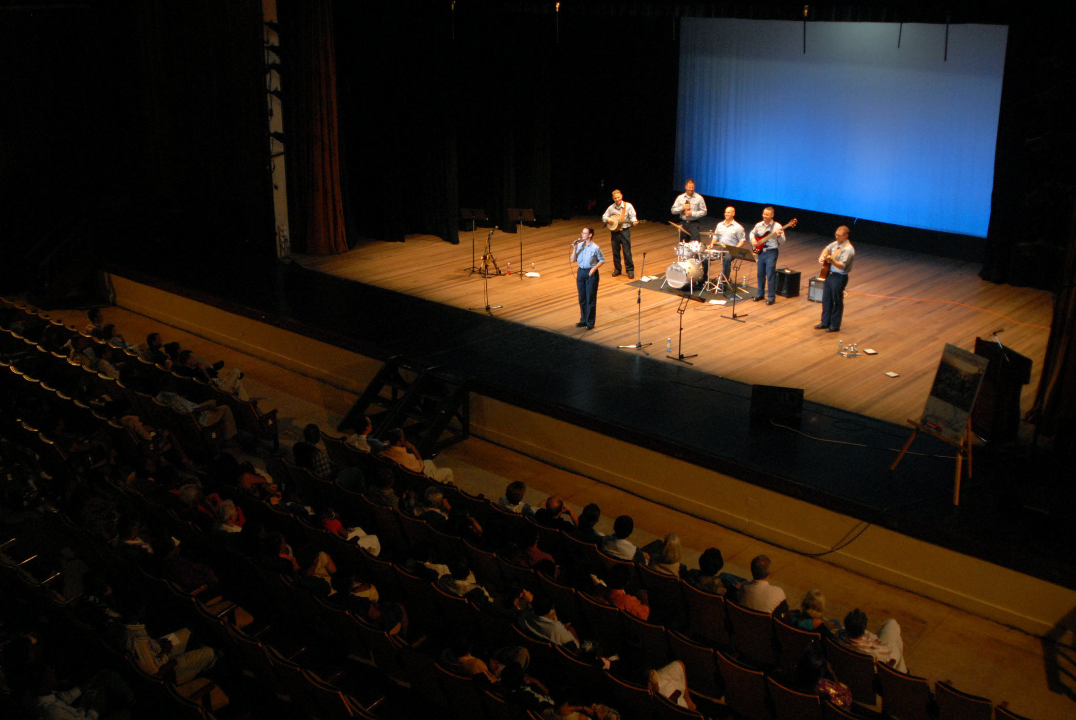 GEORGETOWN, Guyana (Sept. 29, 2007) - The U.S. Navy Showband, attached to Military Sealift Command hospital ship USNS Comfort (T-AH 20), performs at the National Cultural Centre. Comfort is on a four-month humanitarian deployment to Latin America and the Caribbean providing medical treatment to patients in a dozen countries. U.S. Navy photo by Mass Communication Specialist 2nd Class Brandon Shelander (RELEASED)